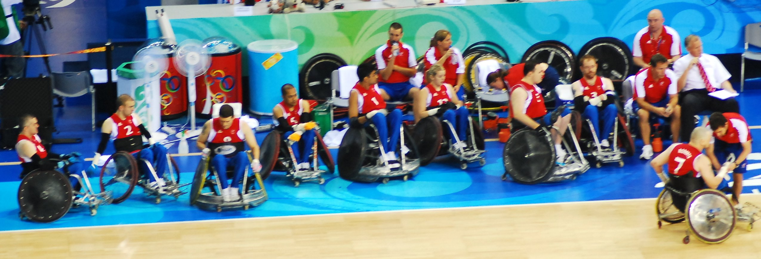 The Great Britain national wheelchair rugby team at the 2008 Paralympic Summer Games in Beijing. (Cropped from File:GB national wheelchair rugby team - Beijing Paralympics 2008.jpg)